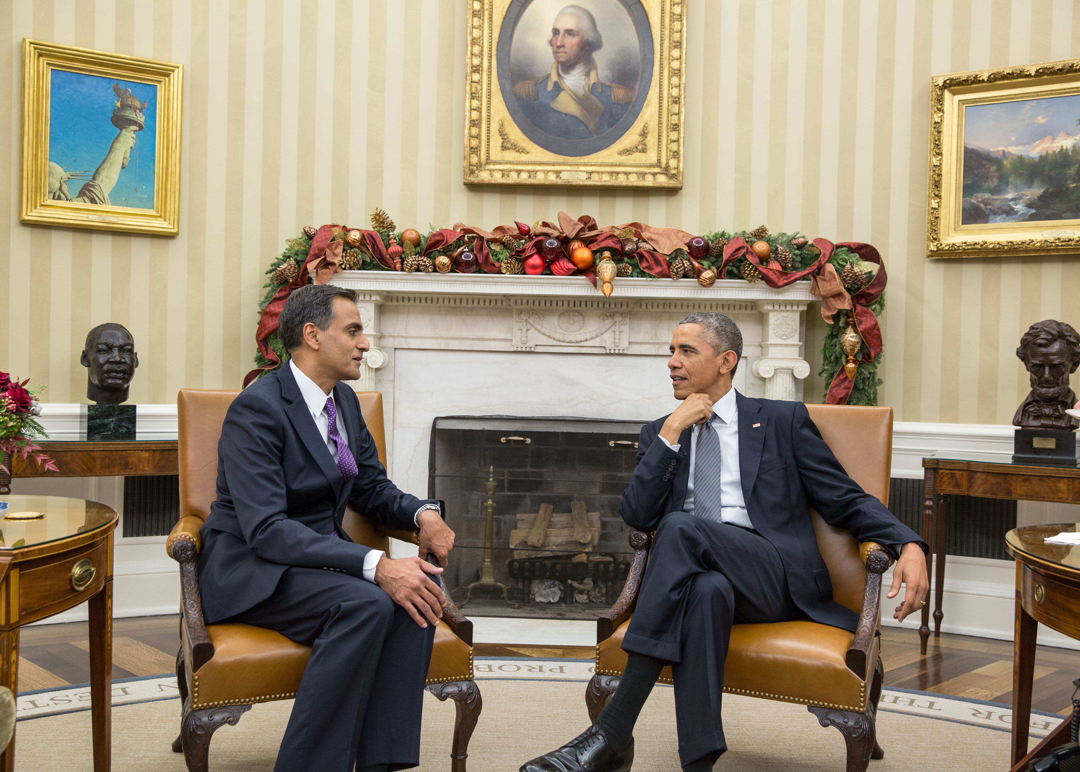 President Barack Obama meets with Richard Verma, recently confirmed by the Senate as the next U.S. Ambassador to India, in the Oval Office, Dec. 11, 2014. (Official White House Photo by Pete Souza)